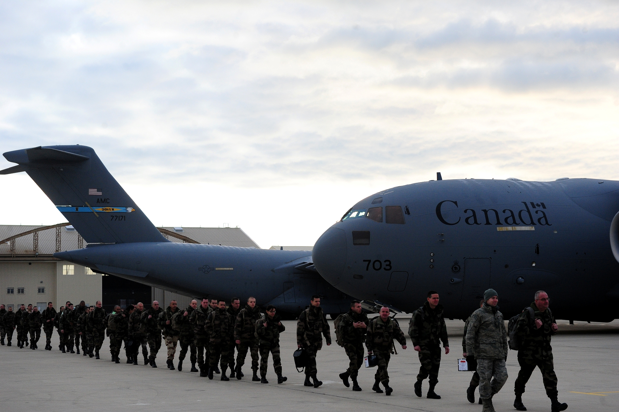 In this photo taken in Istres January 21, French soldiers march to a U.S. Air Force C-17 Globemaster III in Base Aerieene 125, Istres, France. The C-17 can carry up to 170,900 pounds of cargo, and can be configured for a variety of loadouts, including aeromedical evacuation, cargo transportation and passenger movement.